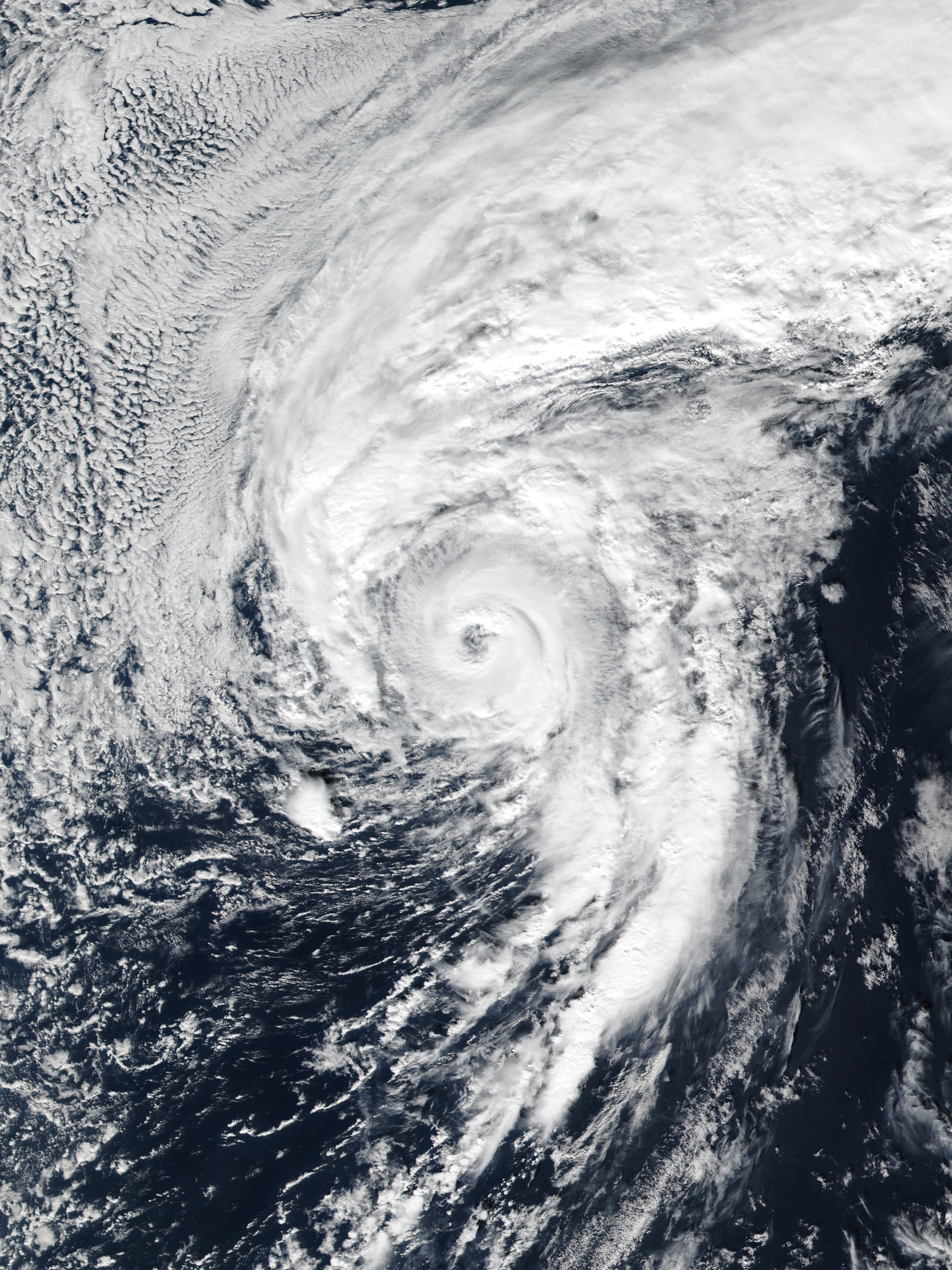 Hurricane Alex at peak intensity and approaching the Azores on January 14, 2016.